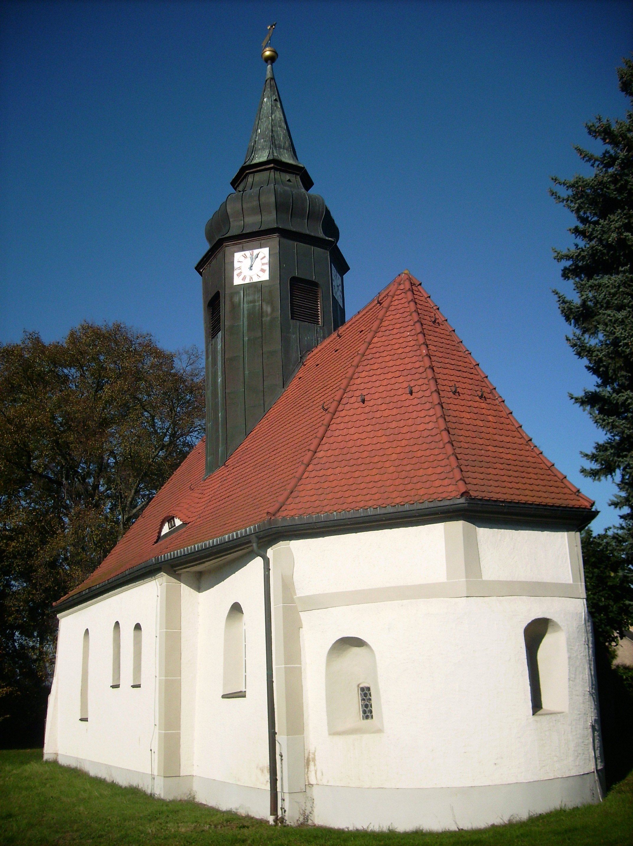 Church of the village of Erdmannshain (Naunhof, Leipzig district, Saxony)